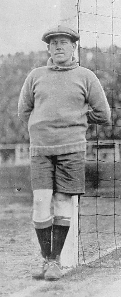 Carlos Tomás Wilson, former goalkeeper of San Isidro and the Argentina national team, photographed in a friendly match v. Alumni (that had been officially disolved in 1913). Wilson played for the team "Combinados".